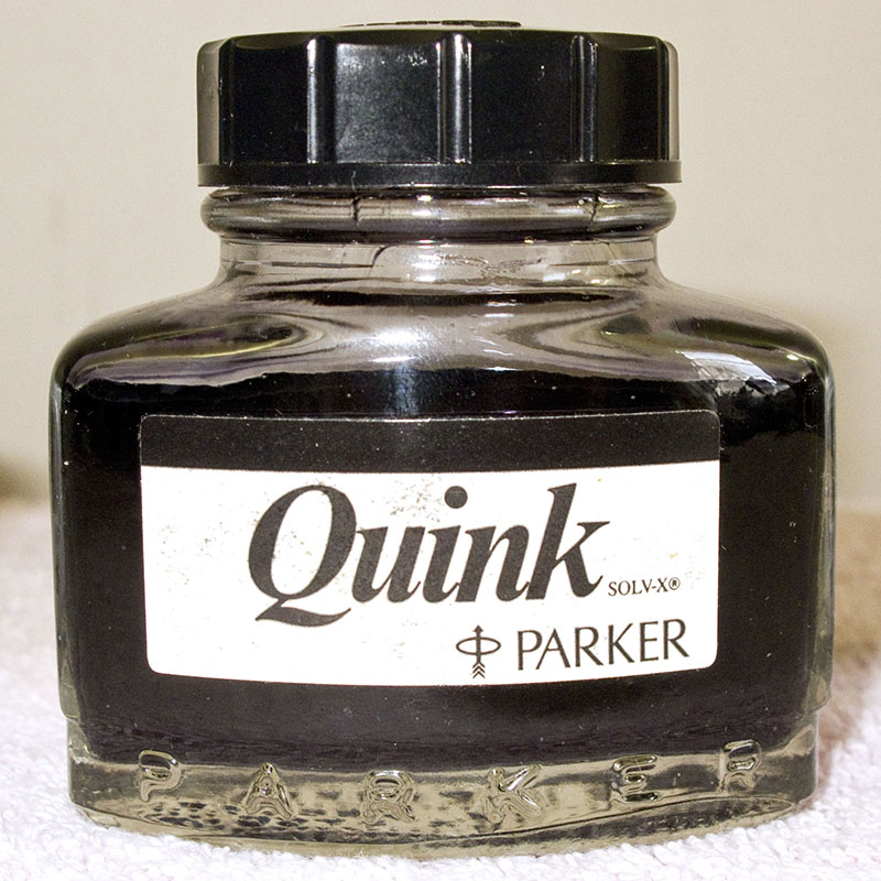 Classic bottle of Parker Quink with the label notation SOLV-X